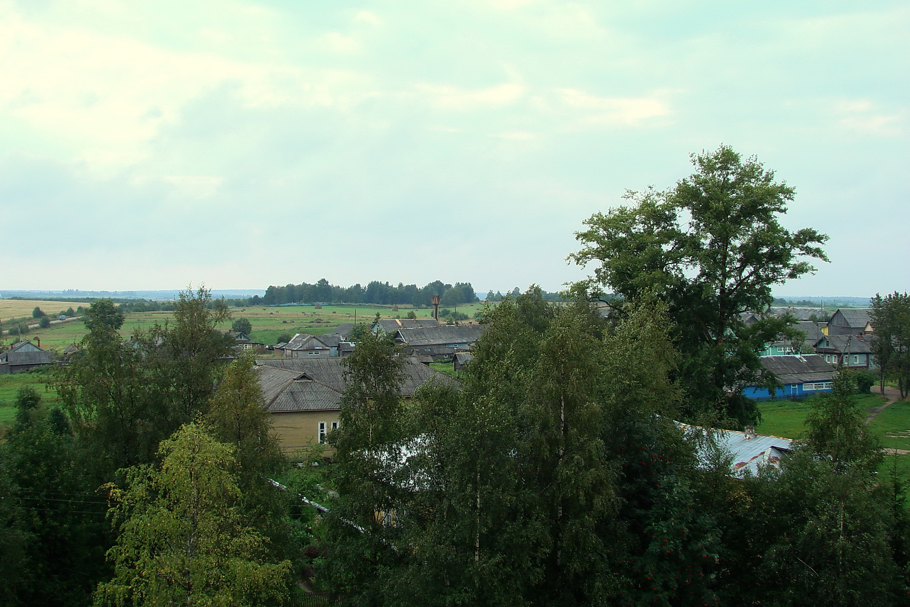 Russia, Vologda region, village Sizma